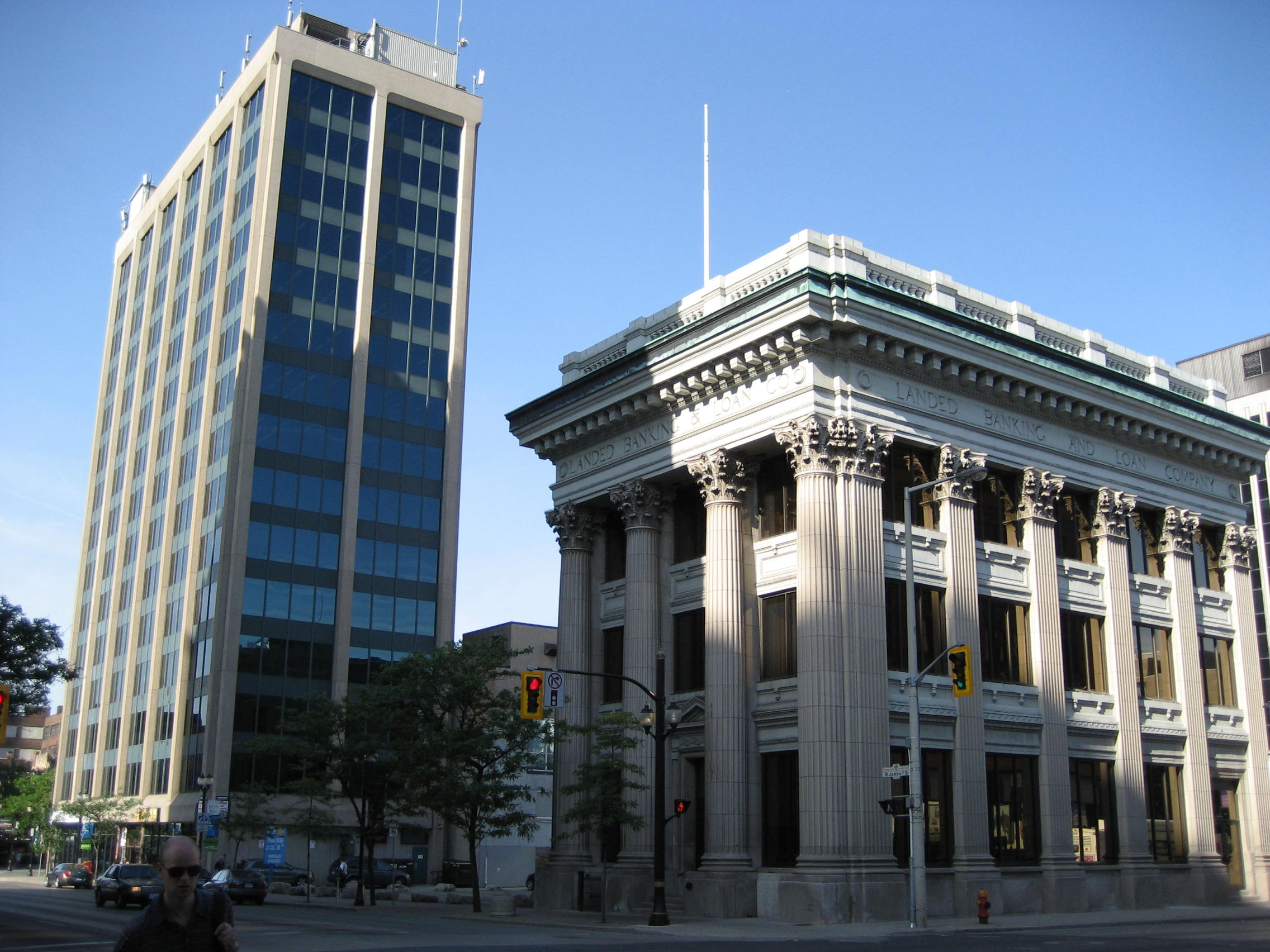 Landed Banking & Loan Building, Main Street East, downtown Hamilton